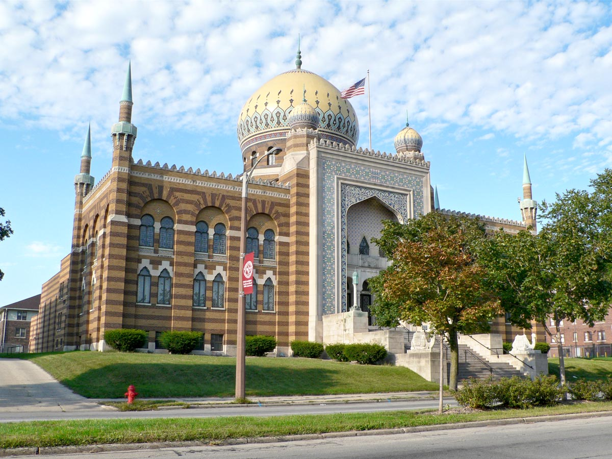 Copyright © 2006 Sulfur The Tripoli Shrine Temple is a historic building located in Milwaukee, Wisconsin. Its fantasy design is based on the Taj Mahal India. It is designed to look like a mosque but is not one; it is a non-religious Shriner building for the Shriners, a subgroup of Freemasonry, which has often used Moorish Revival architecture.